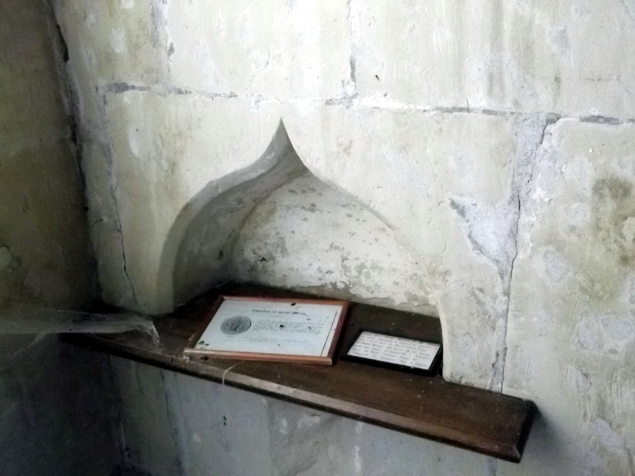 Piscina, south side of chancel, St Mary Magdalene's Church, Battlefield, Shropshire